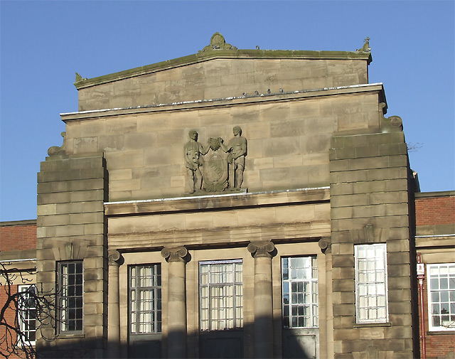 University Buildings (detail), Wolverhampton The university had its origins as the Wolverhampton and South Staffordshire Technical College. The buildings facing onto Wulfruna Street were opened in 1933.